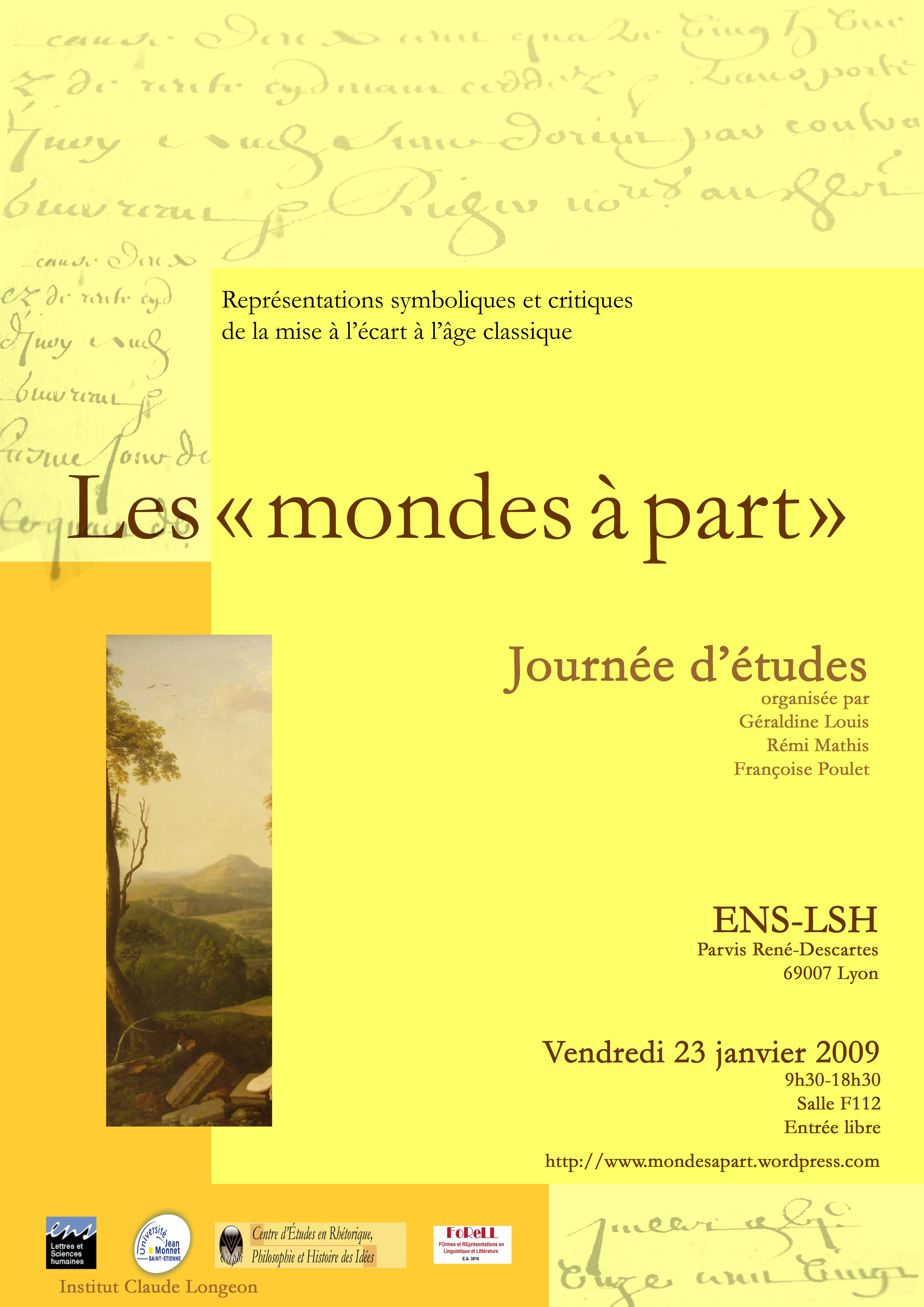 Poster of a conference hold in Lyon in January 2009 on « isolation in XVIIth Century »